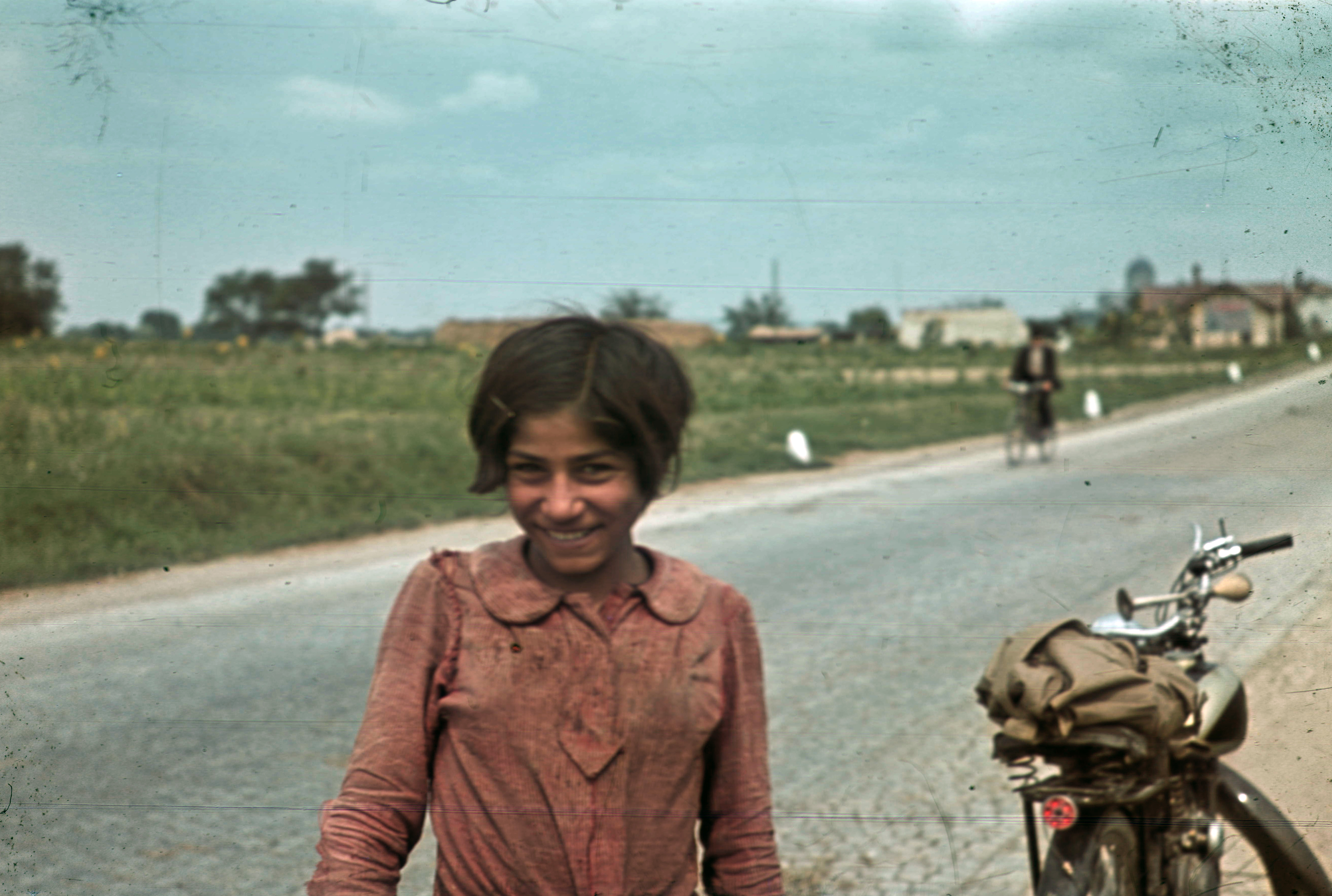 Tags: colorful, girl, bicycle, portrait, motorcycle, smile, gypsy